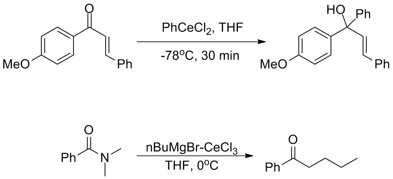 reactivity of organocerium compounds with alpha-beta unsaturated compounds and acyl compounds